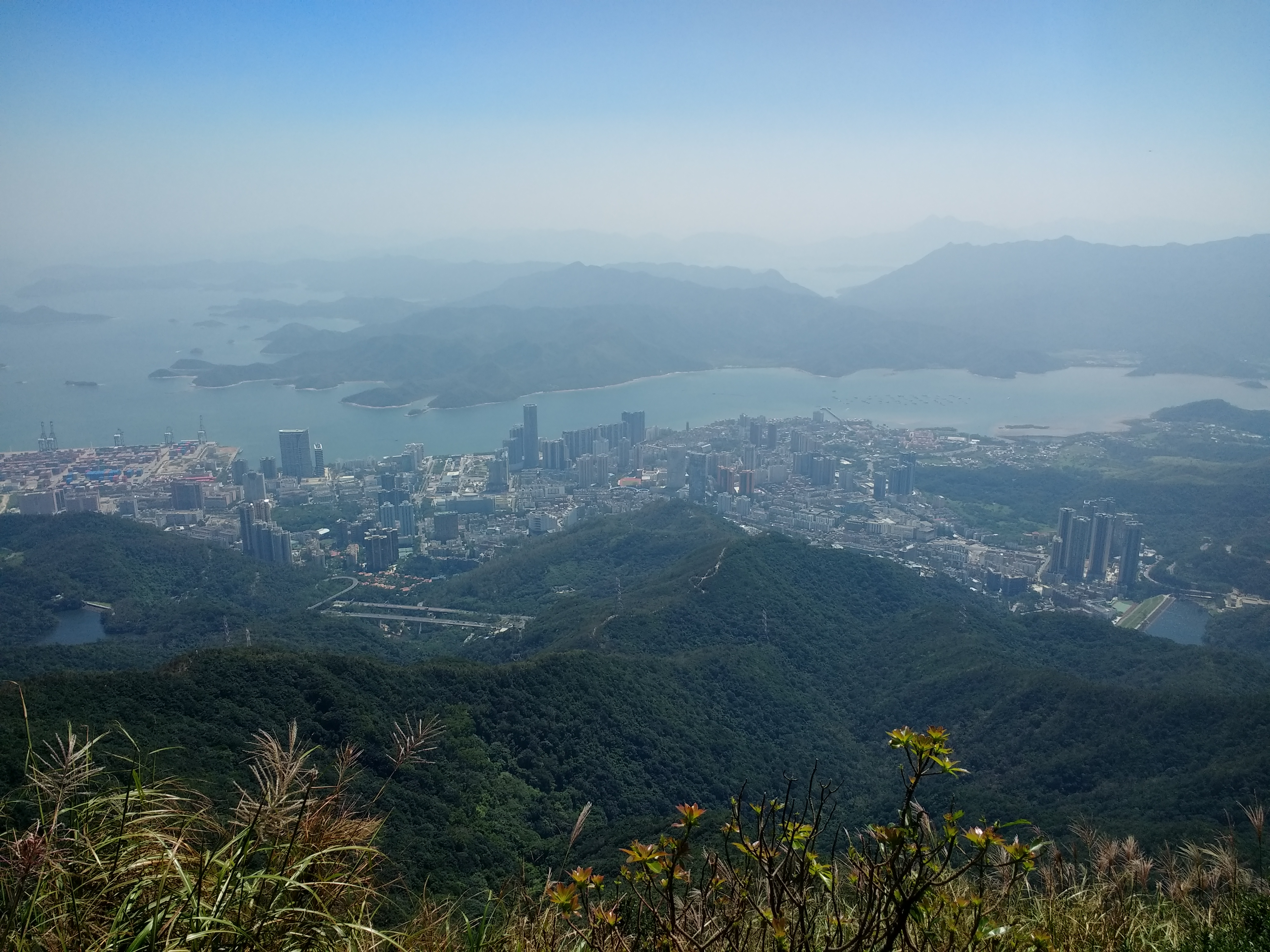 Part of Yantian District (盐田区) and part of the New Territories in Hong Kong, seen from Wutong Mountain (梧桐山) in Shenzhen, China.